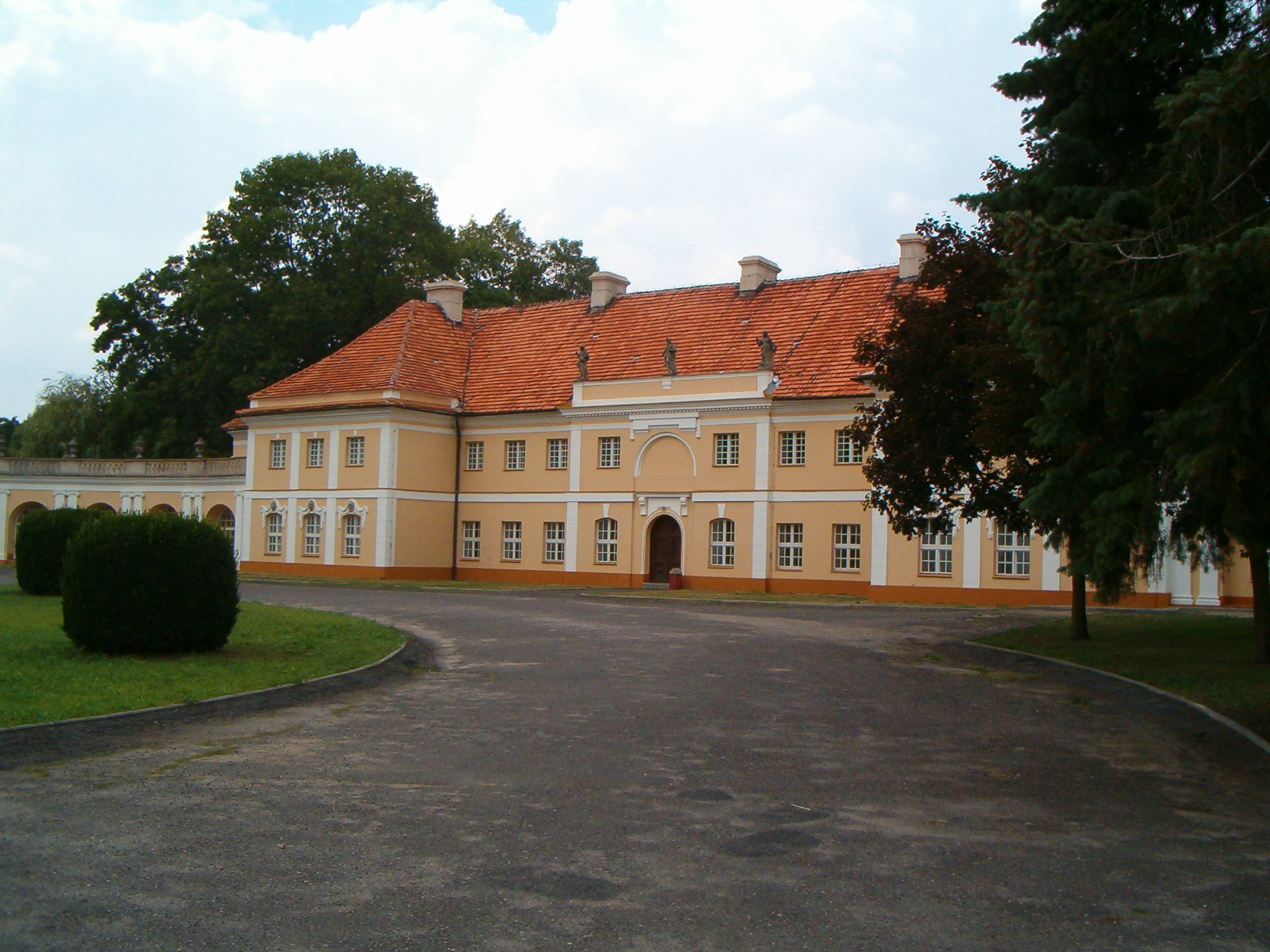 Wing of the palace in Pawlowice, Poland